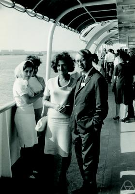 Paul Turan and Vera Sos in Moscow 1966